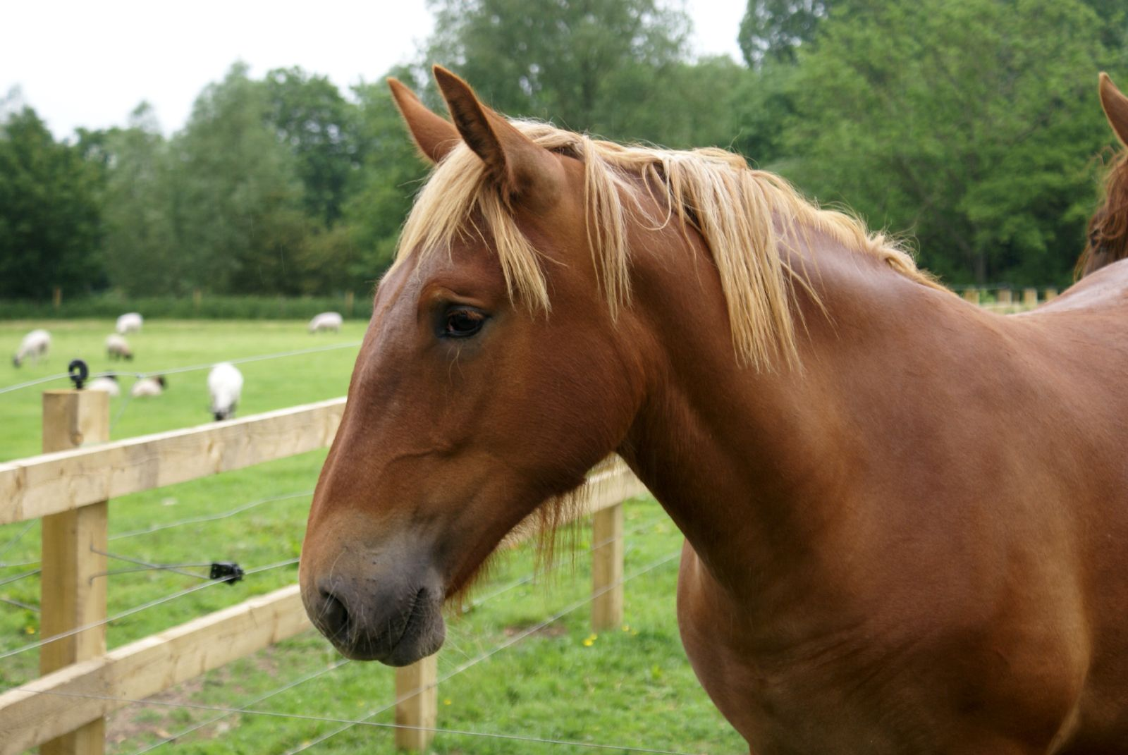 Easton Farm Park Suffolk